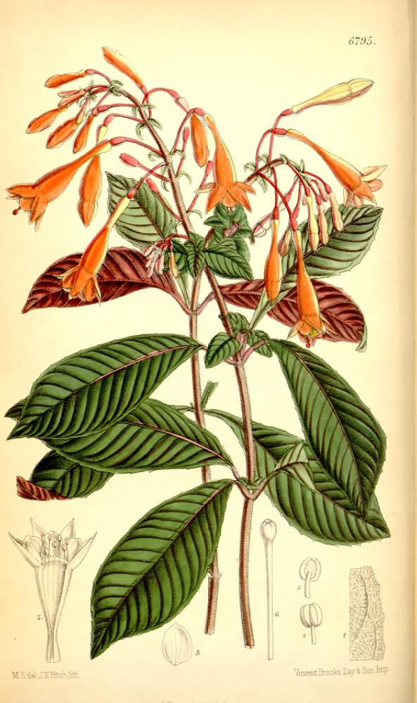 Illustration of Fuchsia triphylla